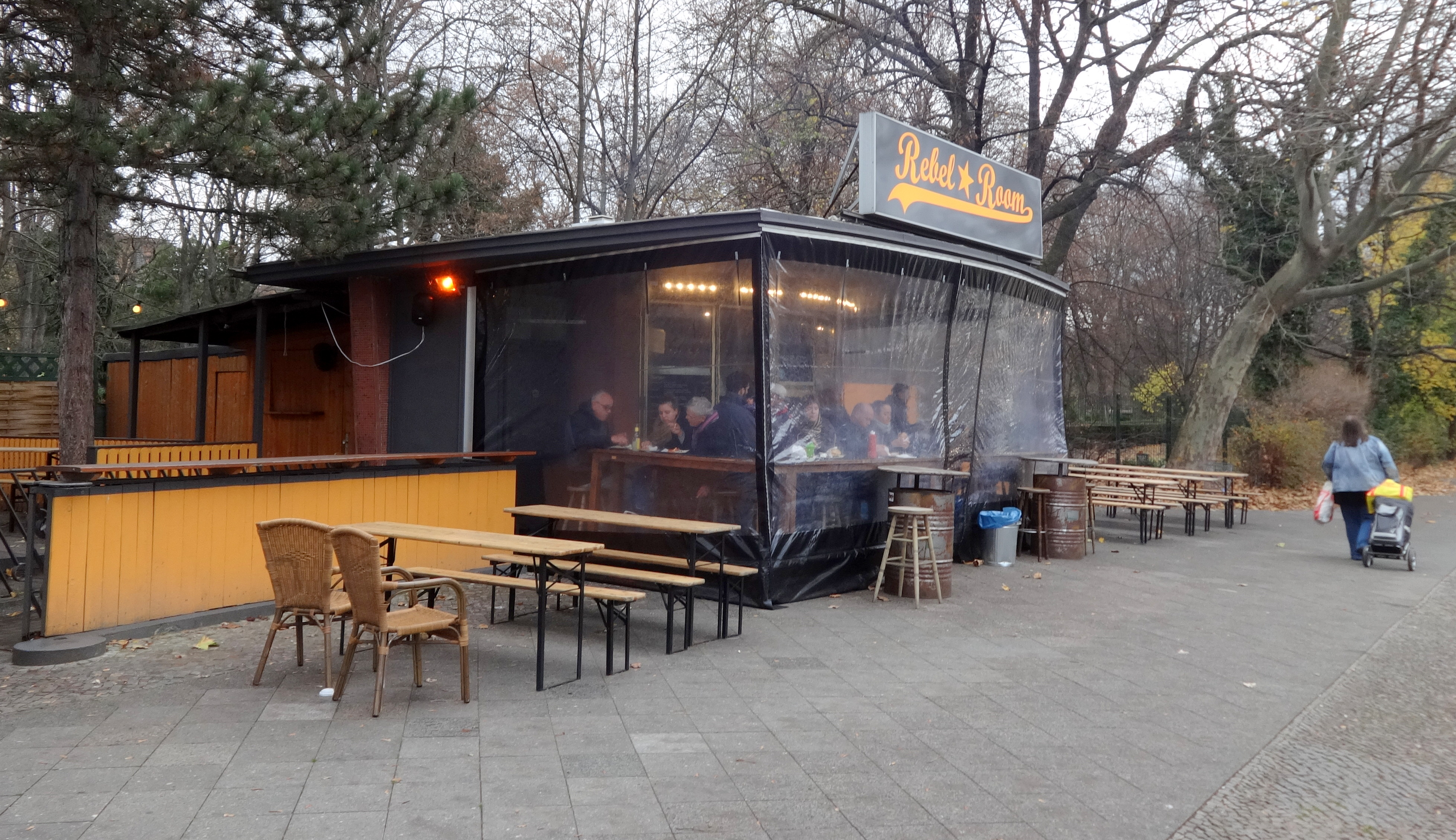 Berlin-Wedding in November